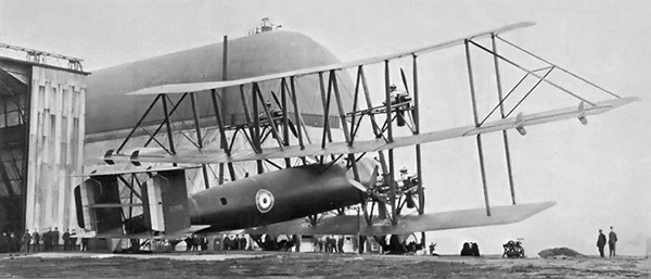 The sole Tarrant Tabor F1765 pictured in 1919.